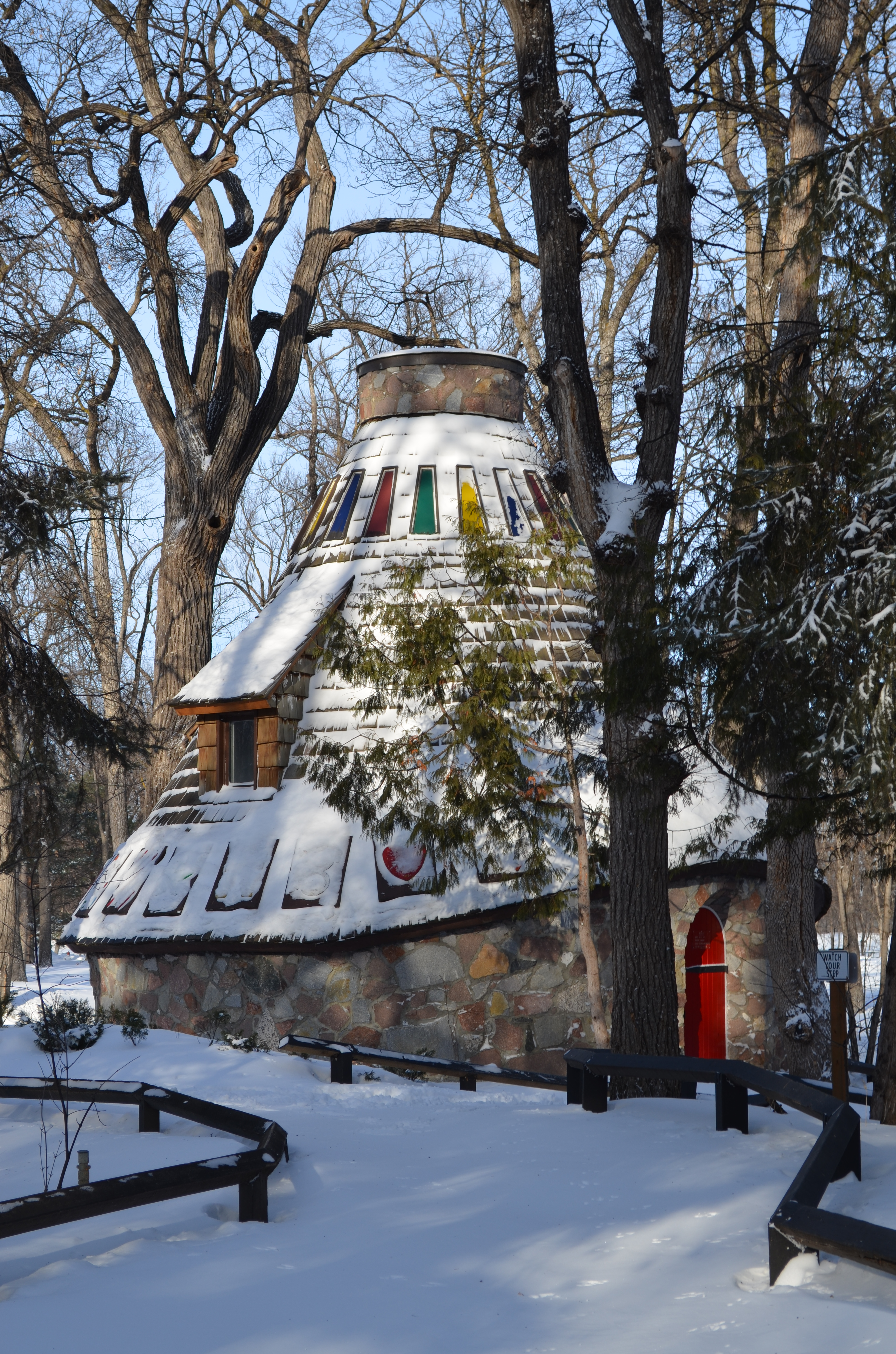 Witch's Hut in Kildonan Park (Winnipeg, Manitoba)